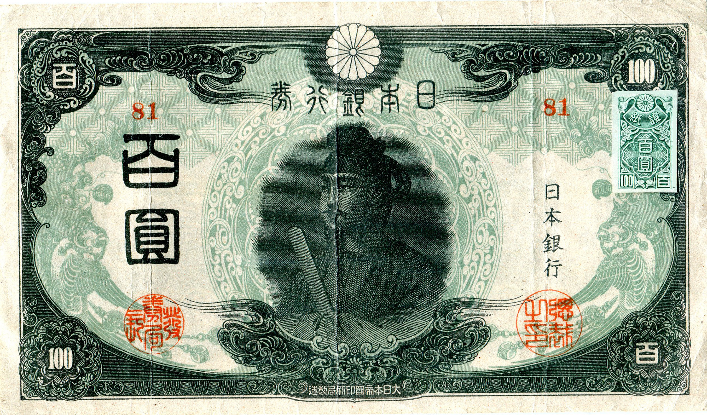 Series Ro 100 Yen Bank of Japan note. Portrait: Prince Shōtoku. Yumedono (Hall of Dreams) at Hōryū-ji temple, Nara prefecture. First issued in 1945. Demonetized in 1946. 163mm x 93mm.